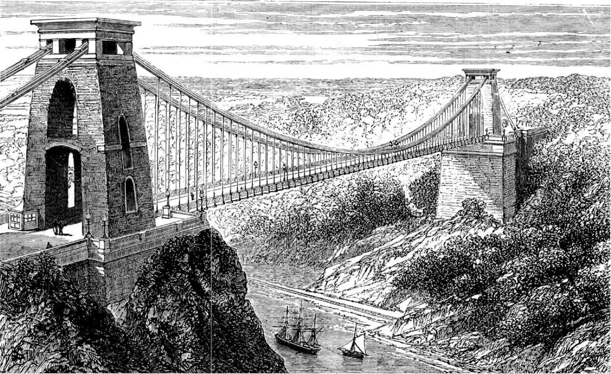 A drawing of the Clifton Suspension Bridge from Lippincott's Magazine